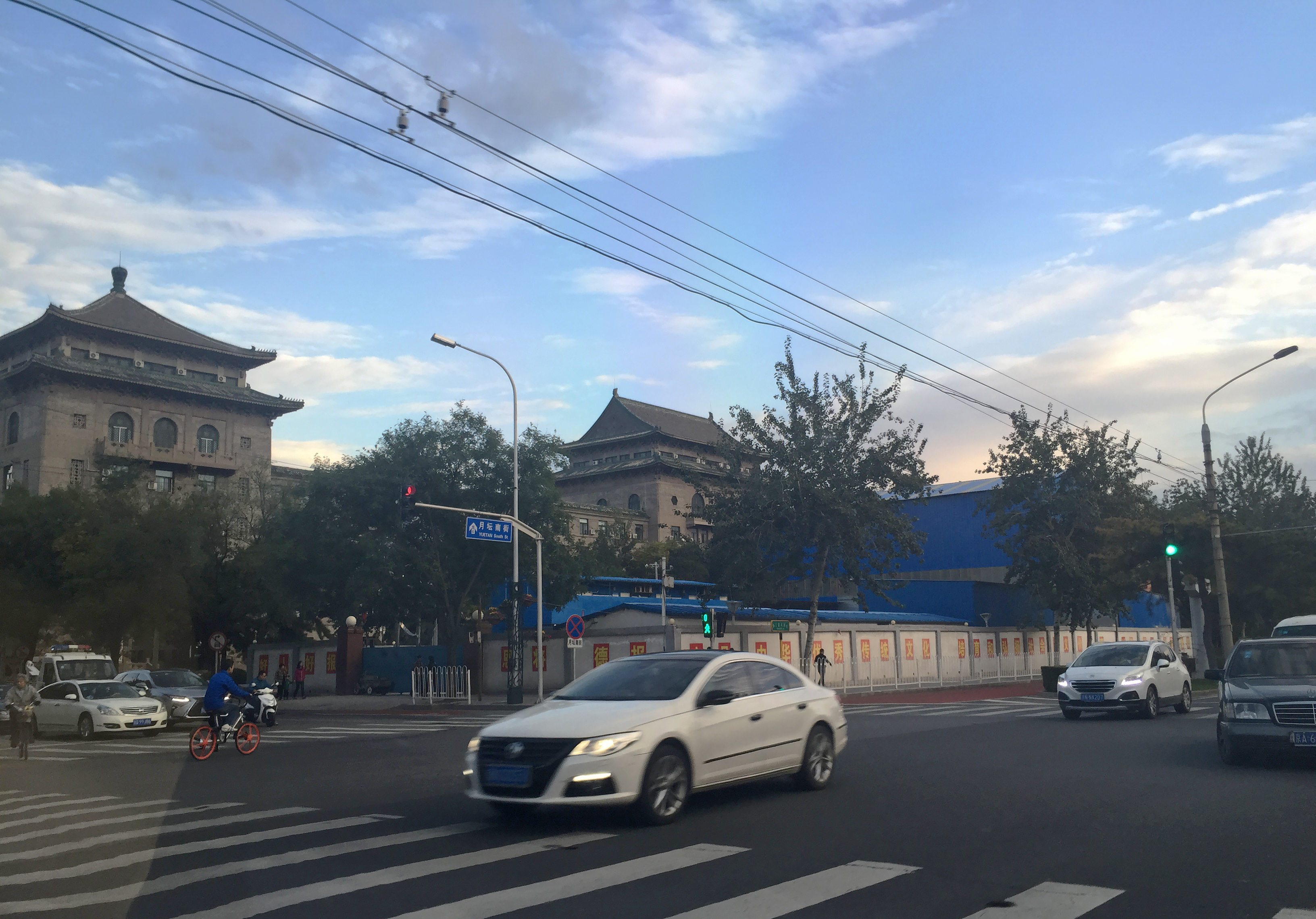 The actual name (both Chinese and English) has not yet been confirmed, while "玉渊潭东门" is the working name for this station. Just wait for what is coming next...